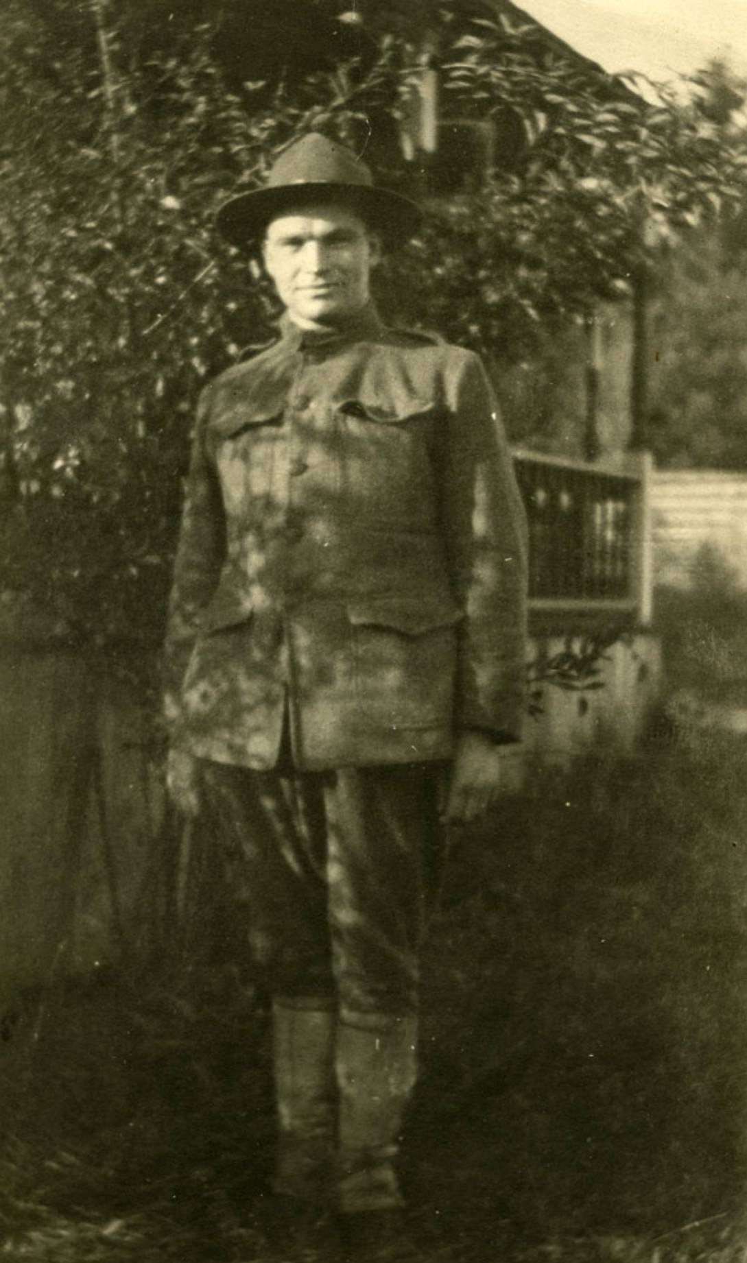 Wesley Everest, IWW member, in his US Army uniform. He was lynched on November 11, 1919 in Centralia, Washington following a raid on the IWW hall during an Armistice Day parade.